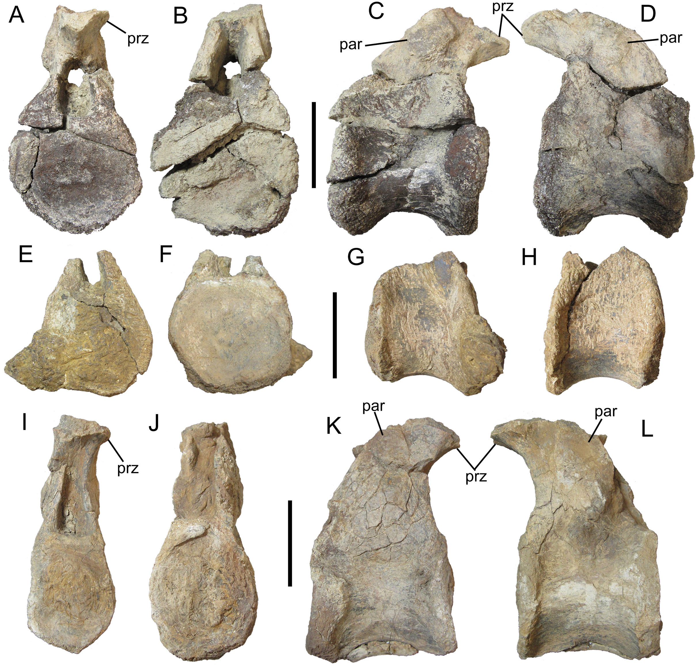 Original figure caption: Dorsal vertebrae of UMNH VP 28350, referred specimen of I. zephyri. Middle dorsal vertebra in (A) cranial, (B) caudal, (C) right lateral, and (D) left lateral views. Middle dorsal vertebra in (E) cranial, (F) caudal, (G) right lateral, and (H) left lateral views. Middle dorsal vertebra in (I) cranial, (J) caudal, (K) right lateral, and (L) left lateral views. Study sites: par, parapophysis; prz, prezygapophysis. Scale bars equal five cm.